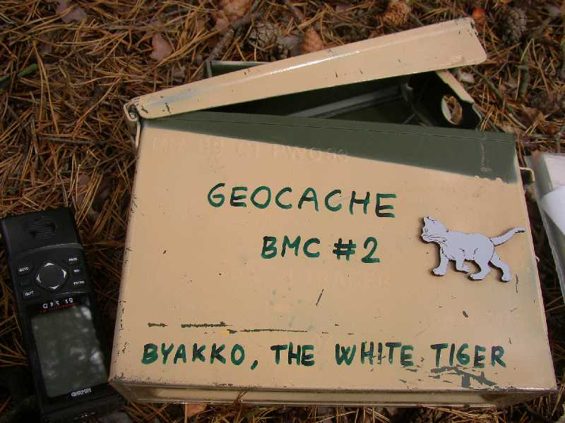 An example of container for geocaching game, Czech Republic.